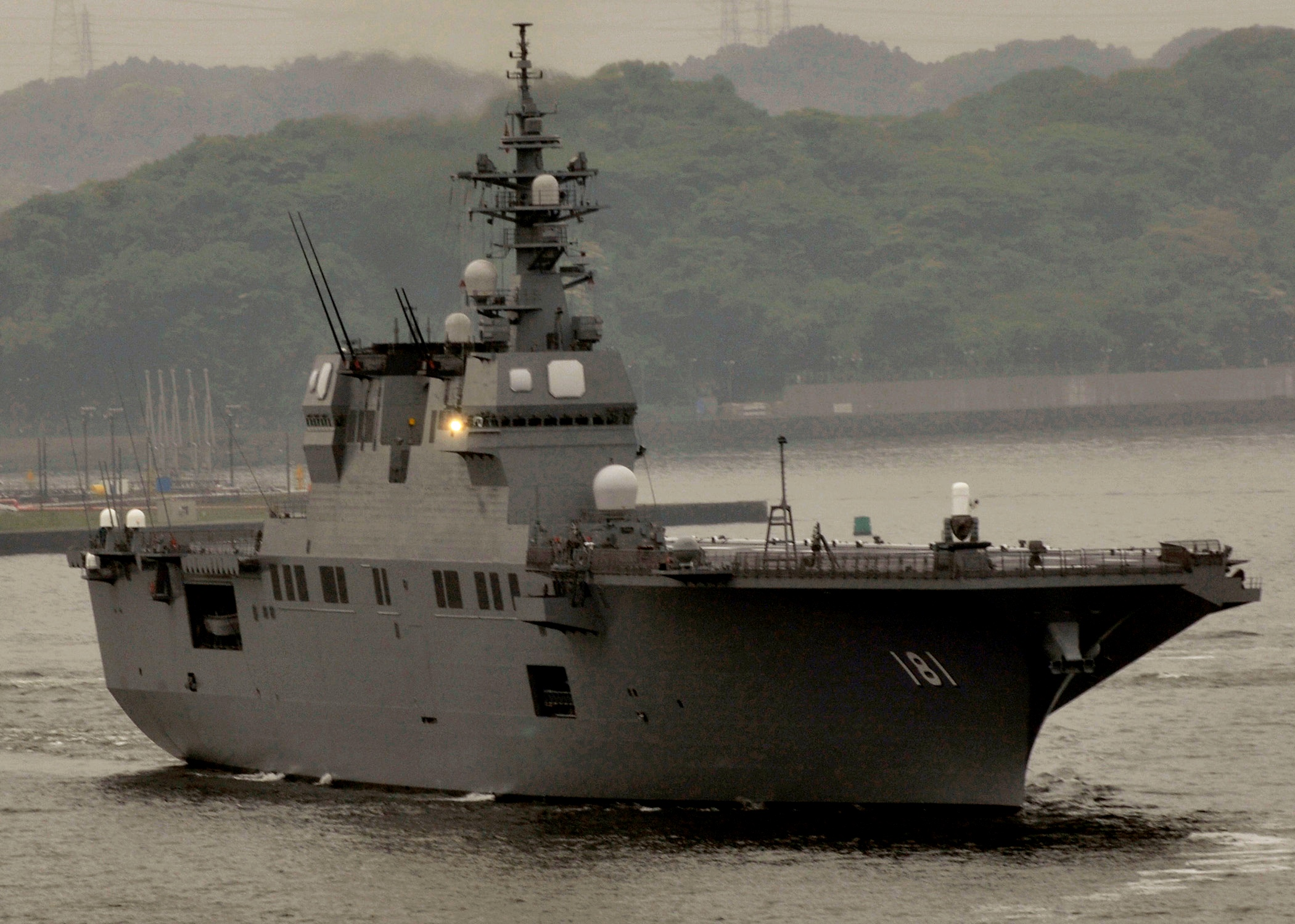 JMSDF Hyūga (DDH 181) sends morse code messages to SS George Washington (CVN 73) via light signals as the ships depart Yokosuka Naval Base.